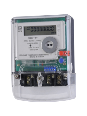 Single phase electricity meter.